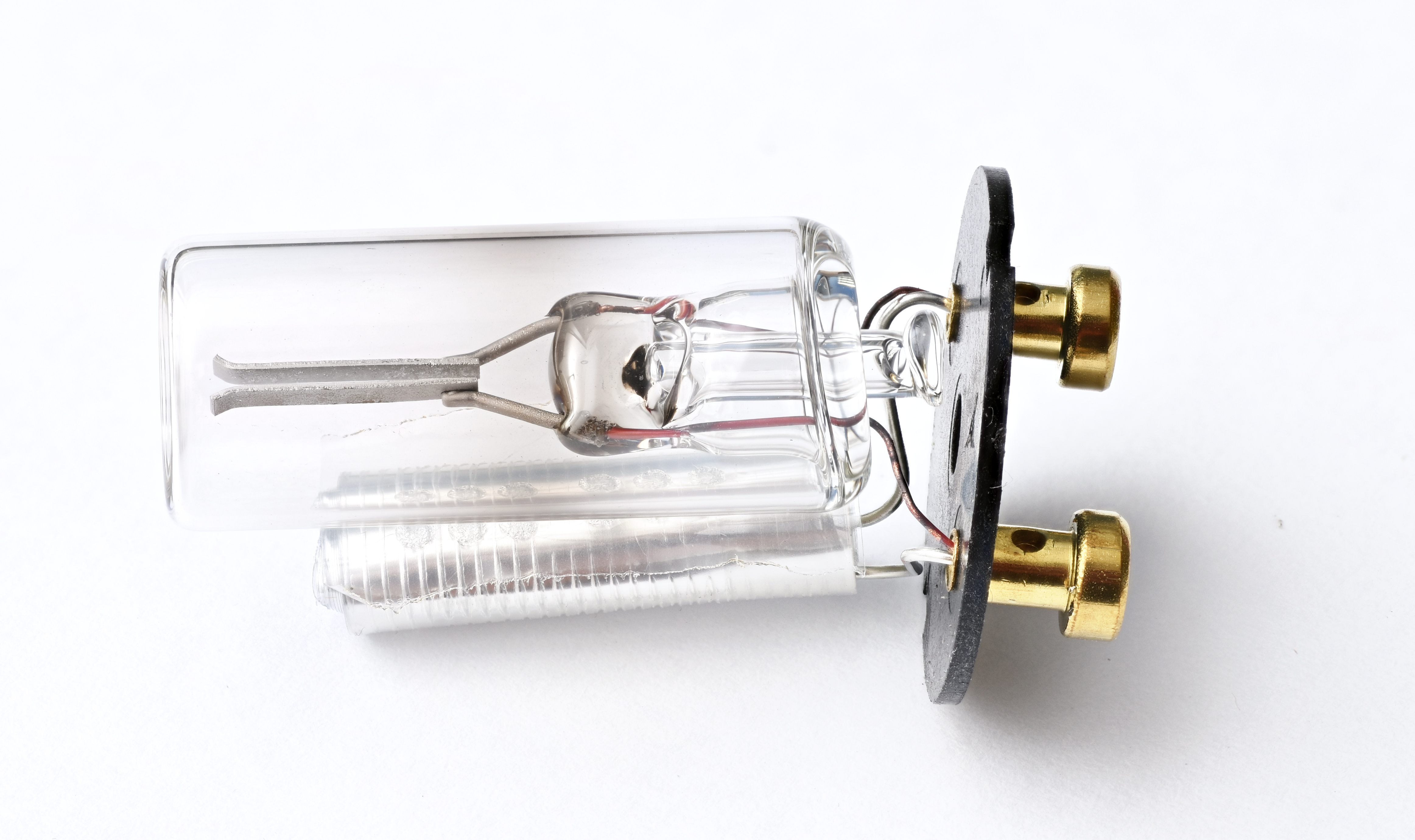 New fluorescent lamp starter, case removed. Type Osram St 111. Image is a stack of 10 images, combined with Zerene Stacker.